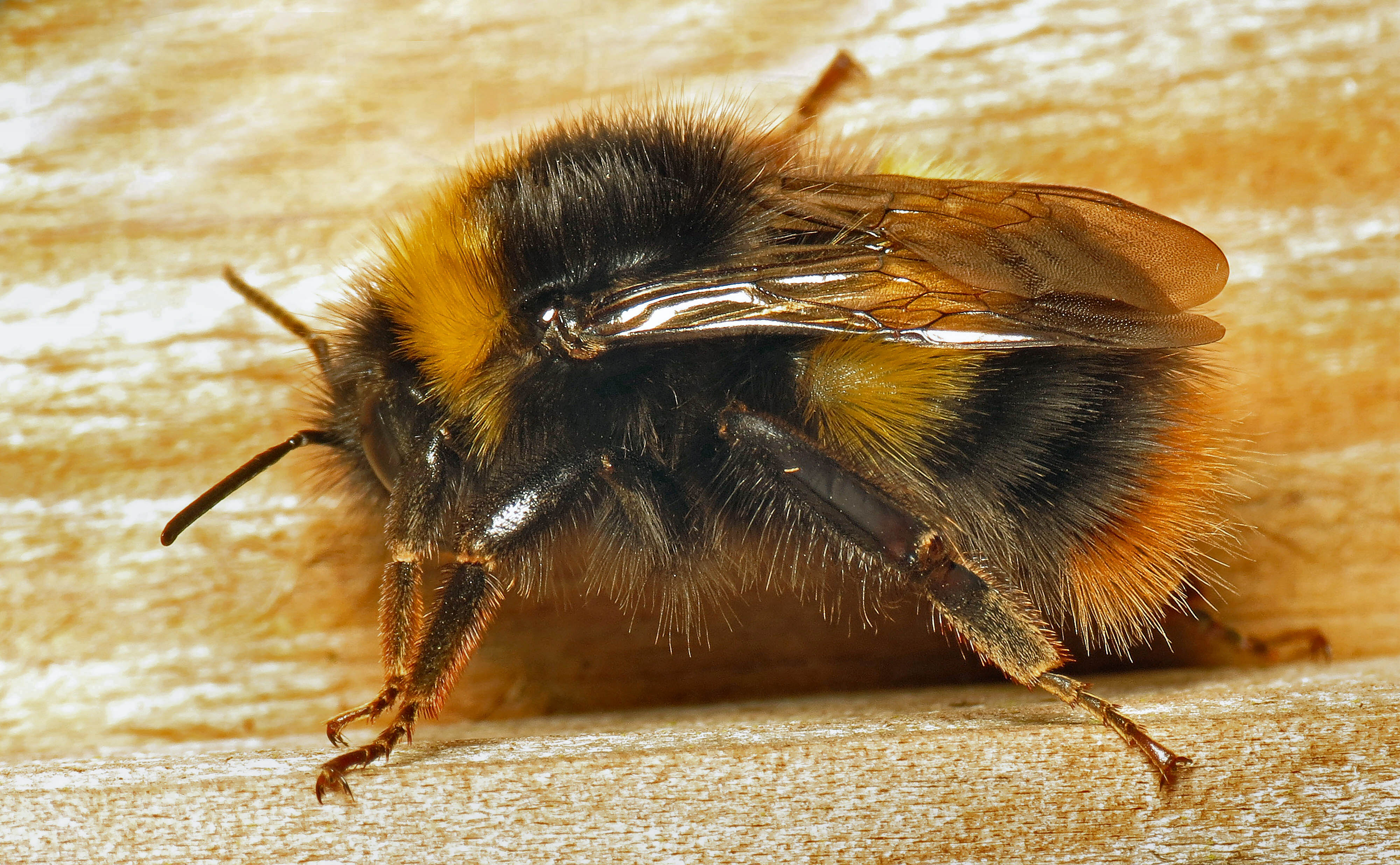 Sunning herself on the garden fence. ID confirmed by Matt Smith on iSpot